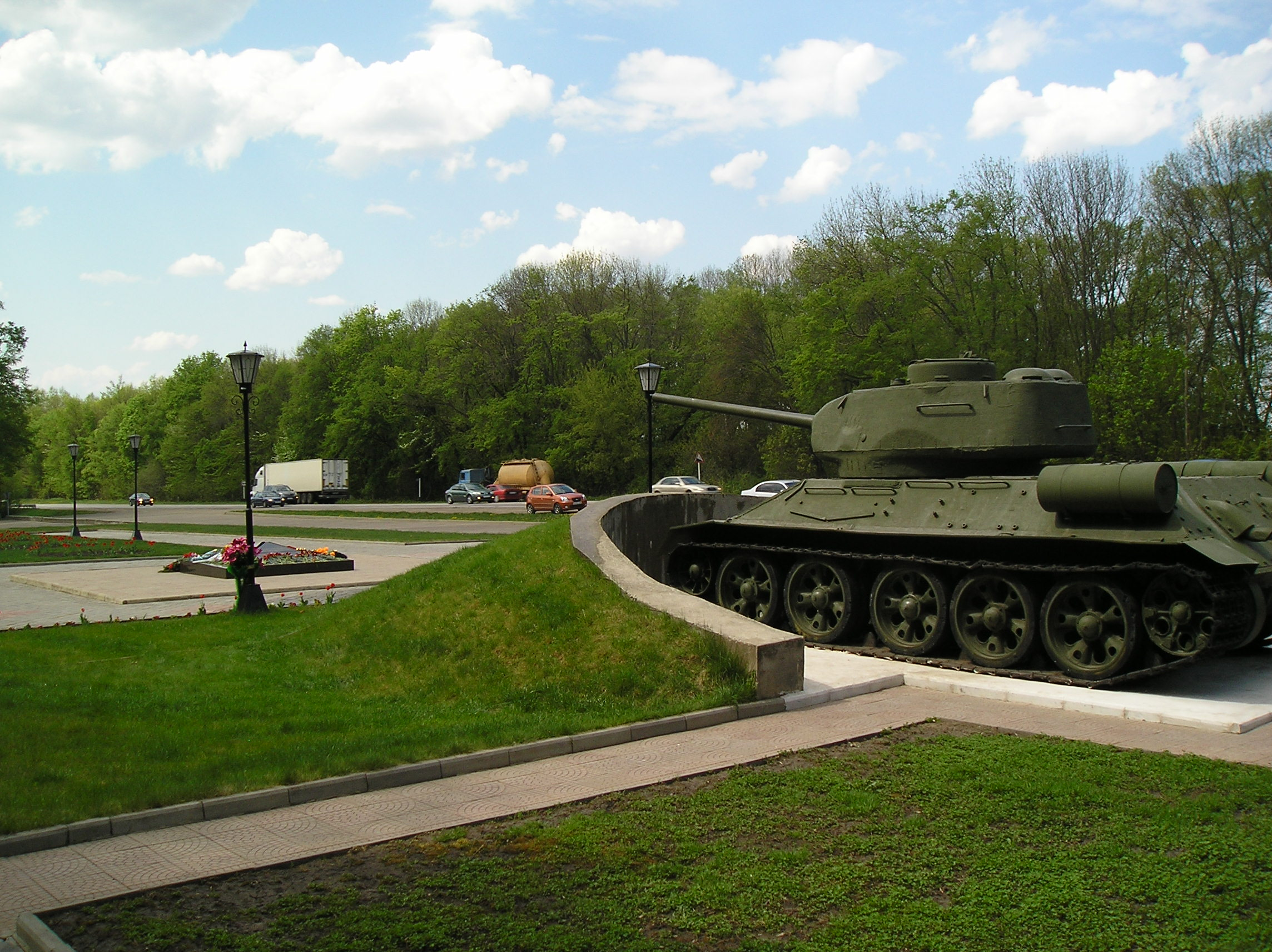 Memorial for heroical tank crew near Pervyi Voin, M2 highway, Russia